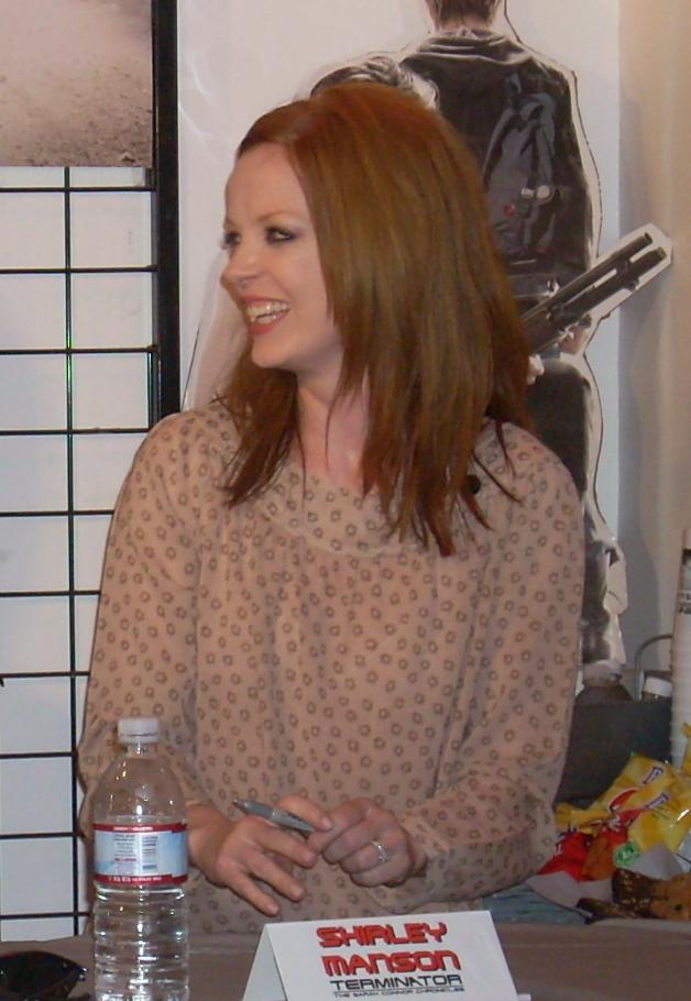 Meet the Cast of "Terminator: The Sarah Connor Chronicles" Signing and Screening Event, Golden Apple Comics on Melrose - Sat., Sept. 13, 2008